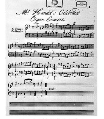 Title page of Handel's Organ Concertos, Op.4, transcribed for solo keyboard by John Walsh (Rowe Music Library, King's College)